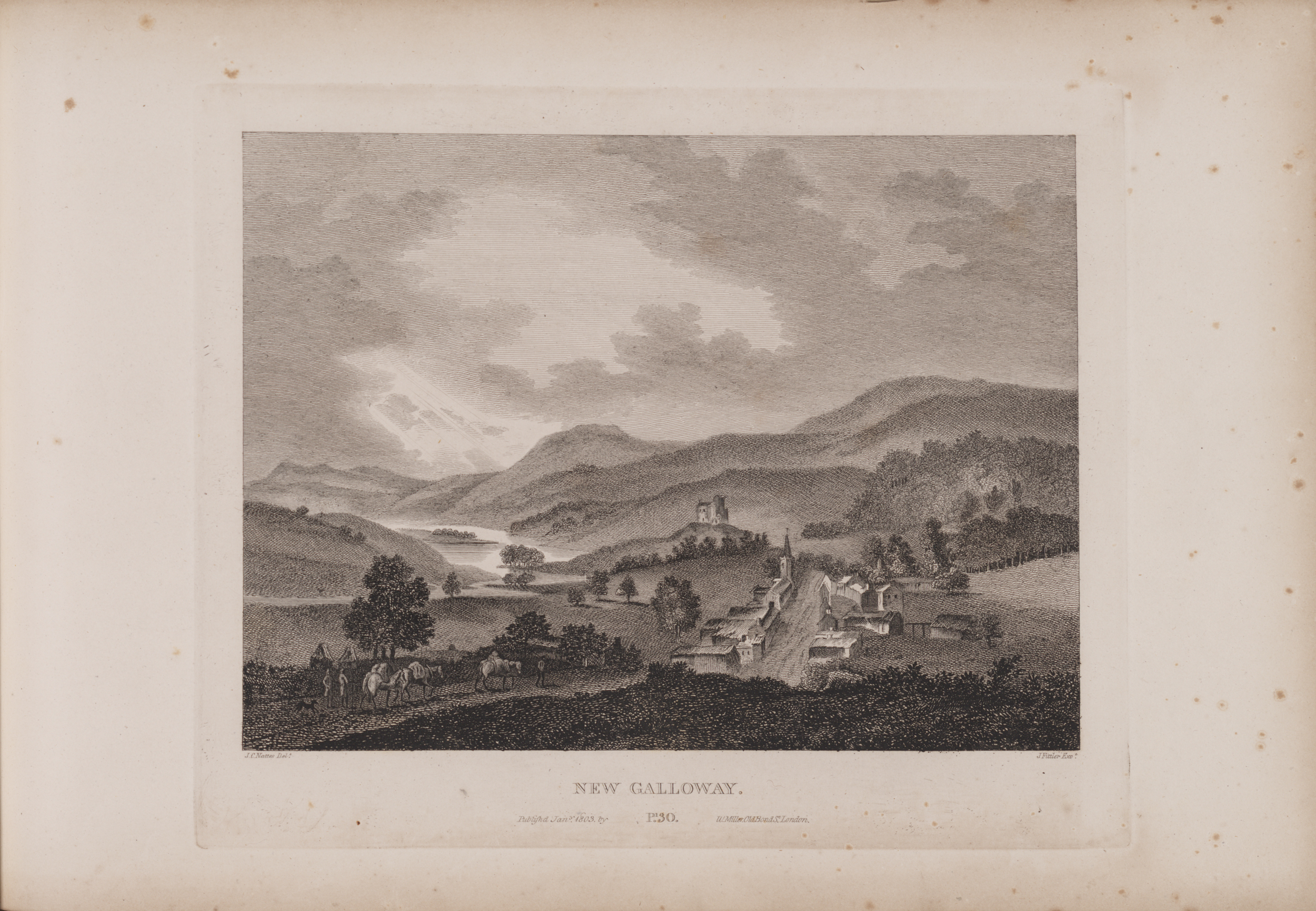 Plate XXX/b - John Claude Nattes made drawings of suitable scenes on the spot; etchings are by James Fittler.